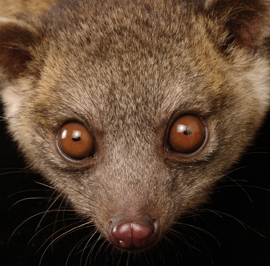 Western Lowland Olingo close-up, Bassaricyon medius medius, in life. Photographed at Las Pampas, adjacent to Otonga Reserve, Ecuador. Photography courtesy of P. Asimbaya and L. Velásquez. Helgen K, Pinto C, Kays R, Helgen L, Tsuchiya M, Quinn A, Wilson D & Maldonado J. (2013). "Taxonomic revision of the olingos (Bassaricyon), with description of a new species, the Olinguito". ZooKeys 324: 1--83. Pensoft Publishers. Retrieved on 2013-08-16.